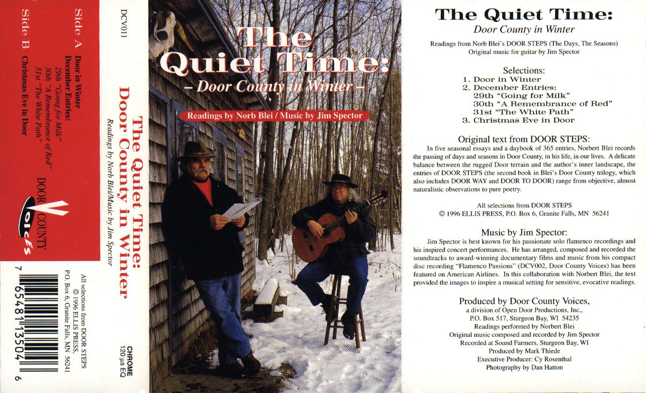 Cover for the audiotape The Quiet Time: Door County in Winter, (Door County Voices DCV011, 1997). Readings written and read by Norb Blei; music written and performed by Jim Spector.